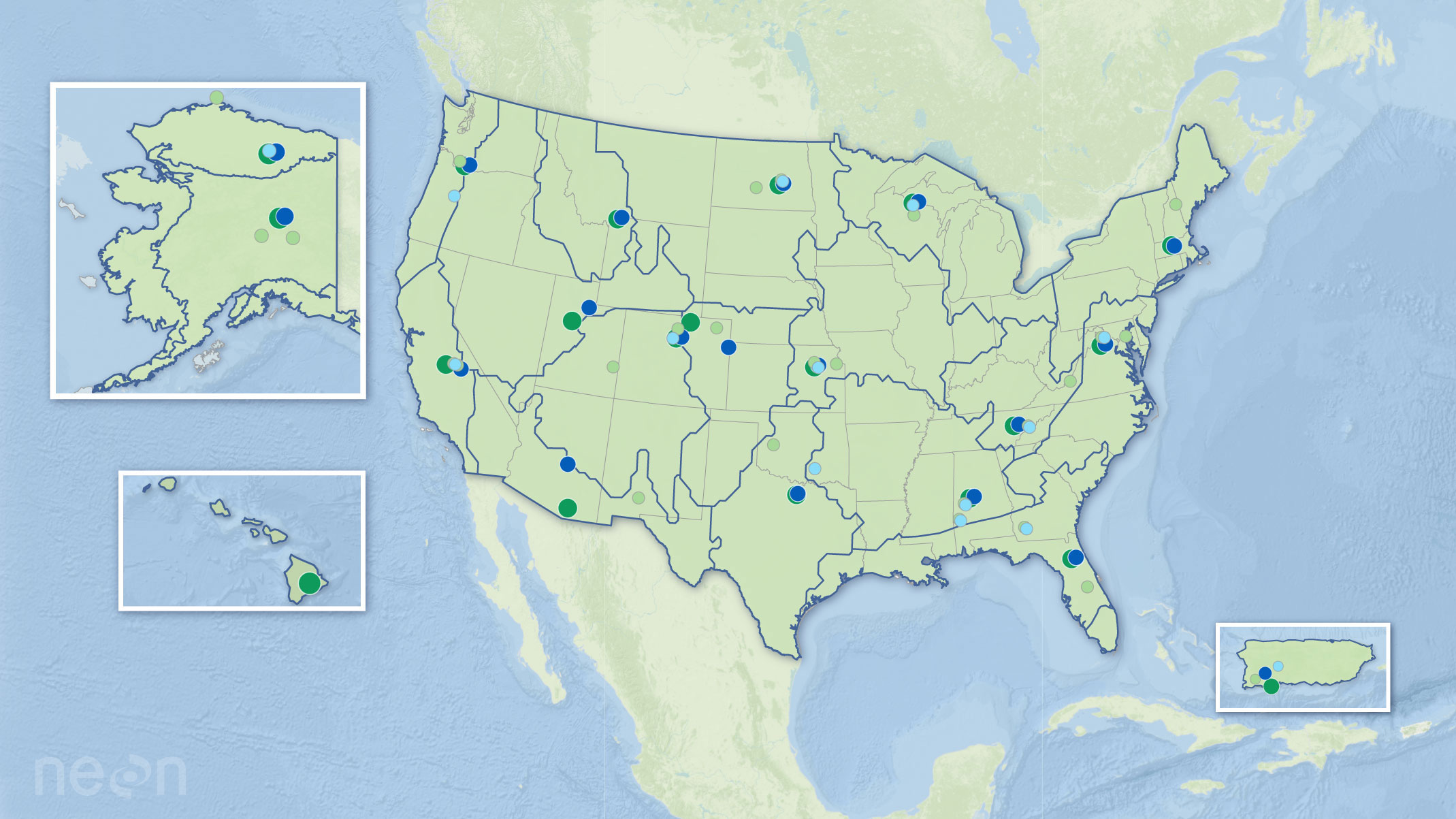 Sites constructed by the National Ecological Observatory Network